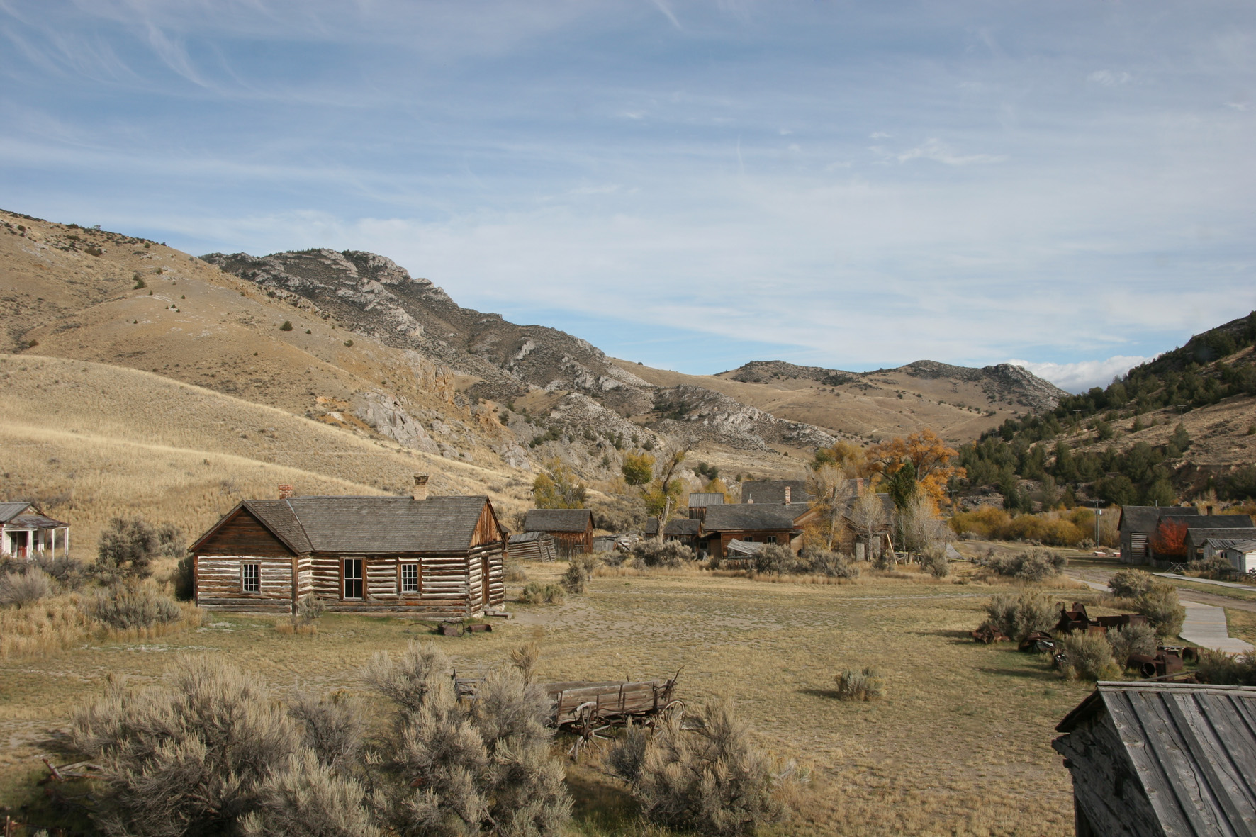 Bannack Historic District, 22 miles from Dillon off Montana Highway 278 Dillon